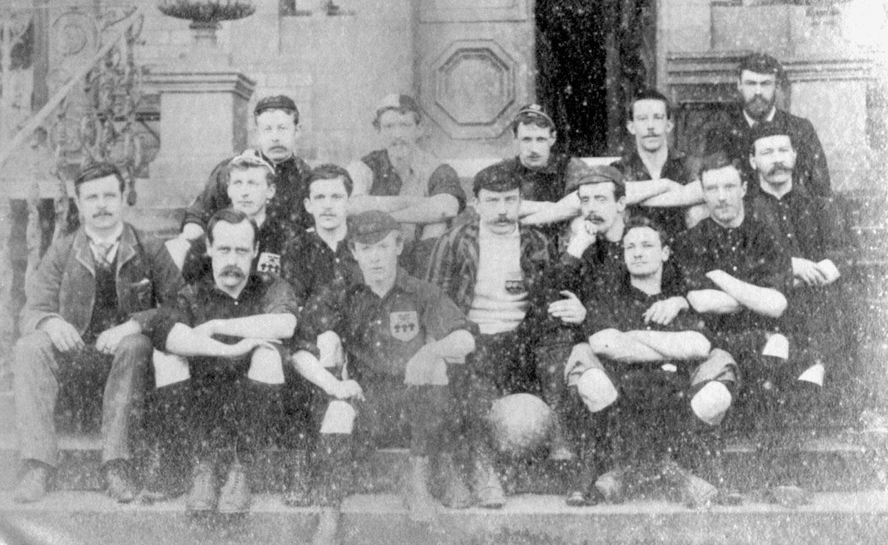 Sheffield F.C. pictured in 1890. Previously, Image:Sheffield FC 1857.jpg was believed to be of this team but was identified in 2008 as being of a London Representative XI.